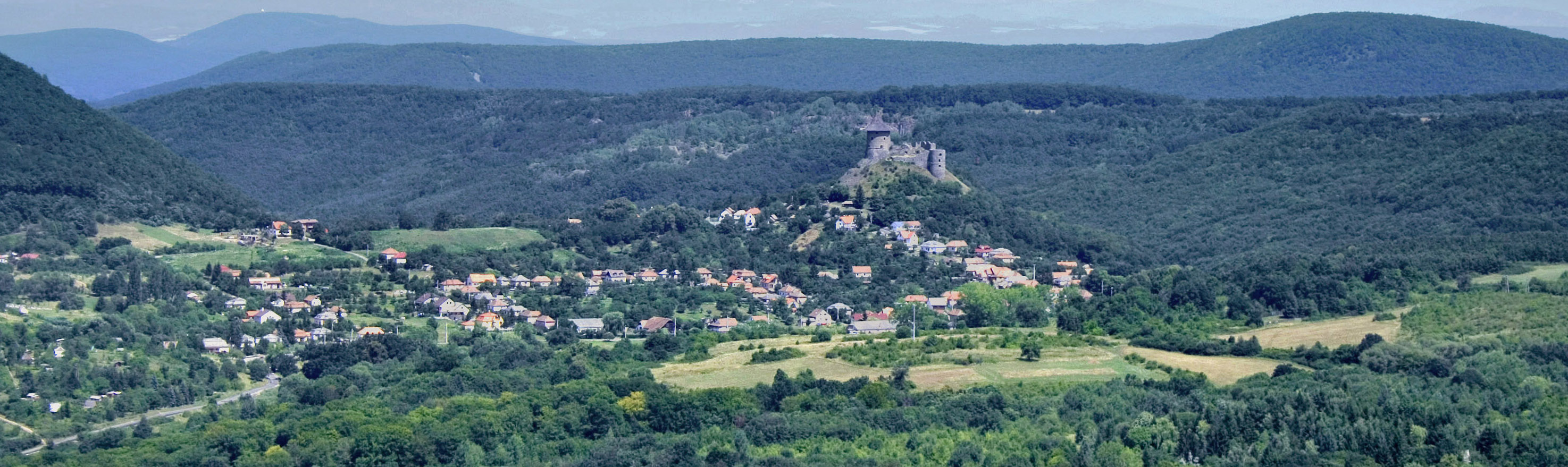 The castle Somoskő and the village - Hungary